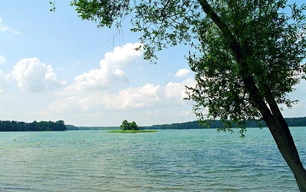 Lake near Augustow in Podlaskie (Poland)